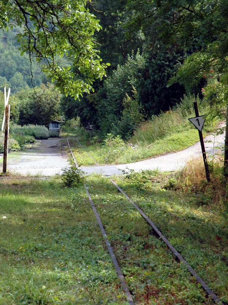 remainings of Jagst valley rail line in Widdern